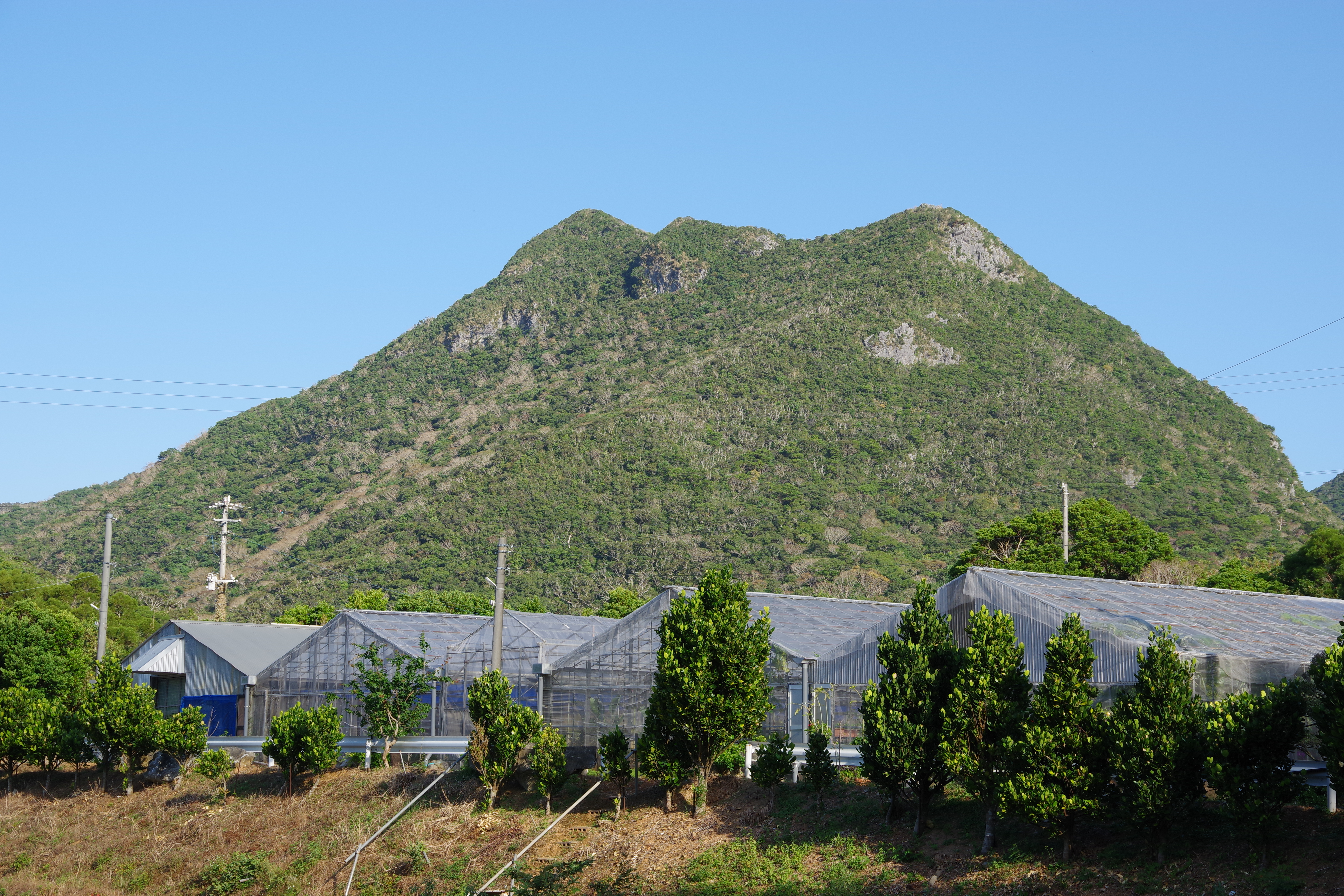 Mount Awa seen at south, Okinawa Prefecture, Japan